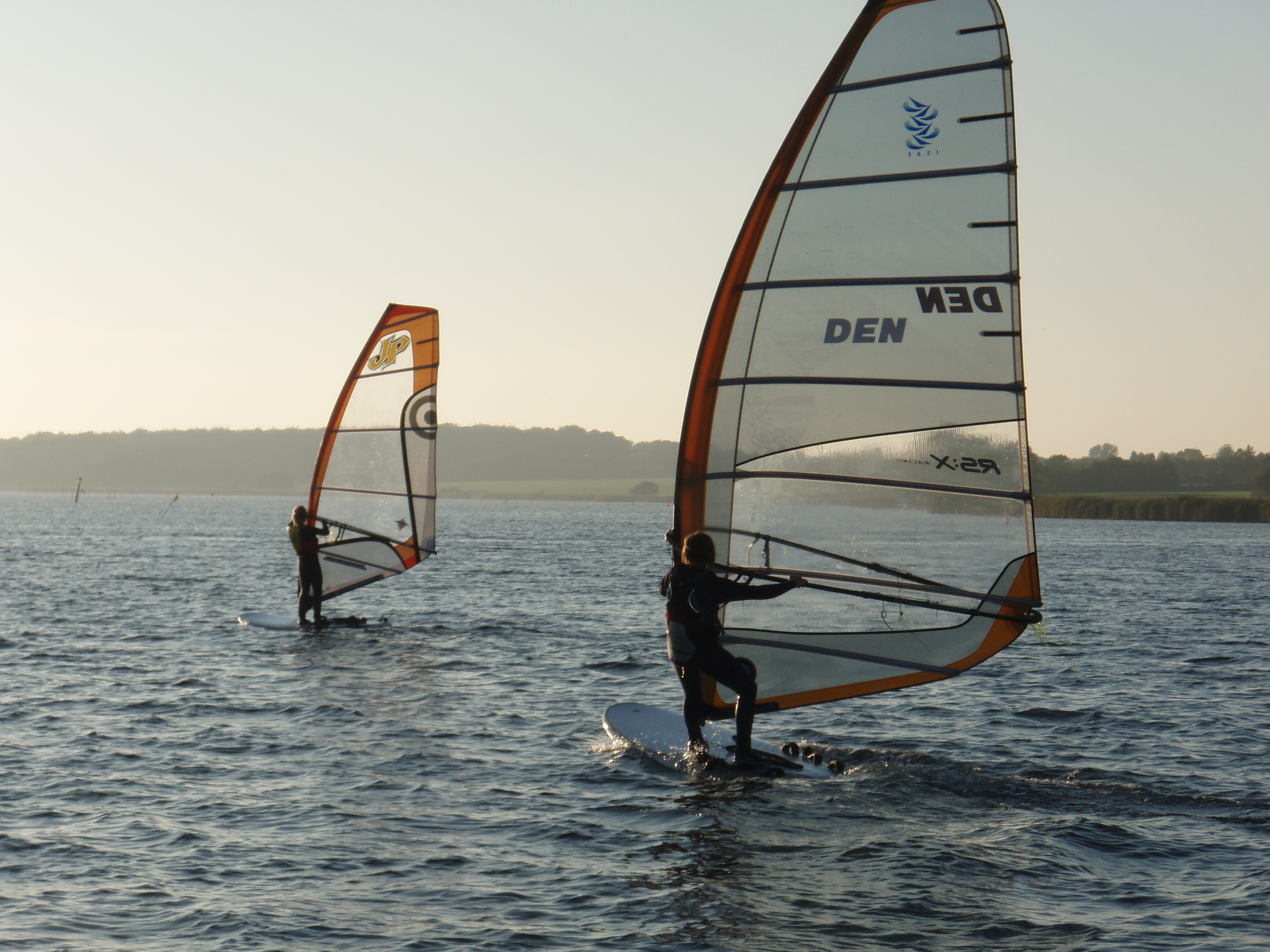 RS:X - the new olympic board. Ydernæs, Denmark